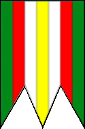 The flag of Podlužany